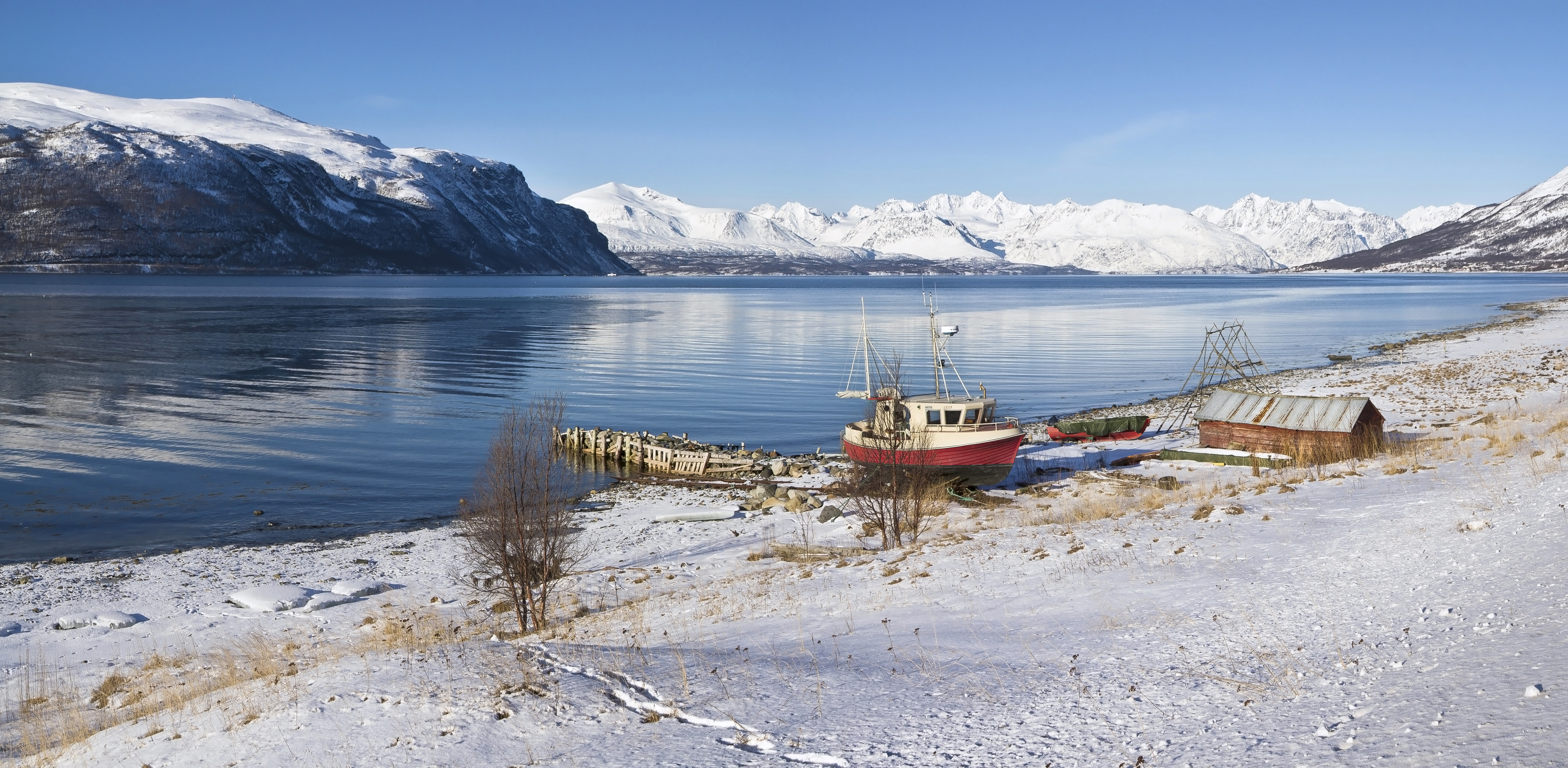 A view towards west and northwest from the northeast coast of Kåfjorden (Gáivuotna) in Troms, Norway in 2012 March.